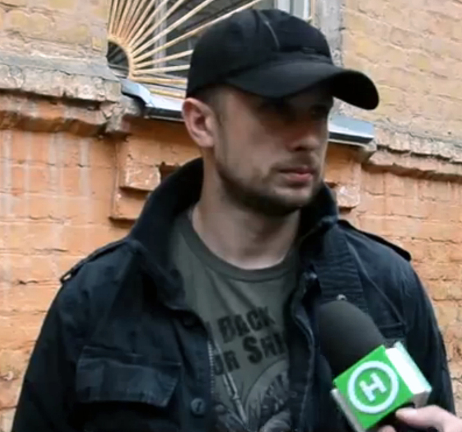 Andriy Biletsky, Lieutenant colonel of the Ukrainian police, commanding officer of the special police regiment «Azov».